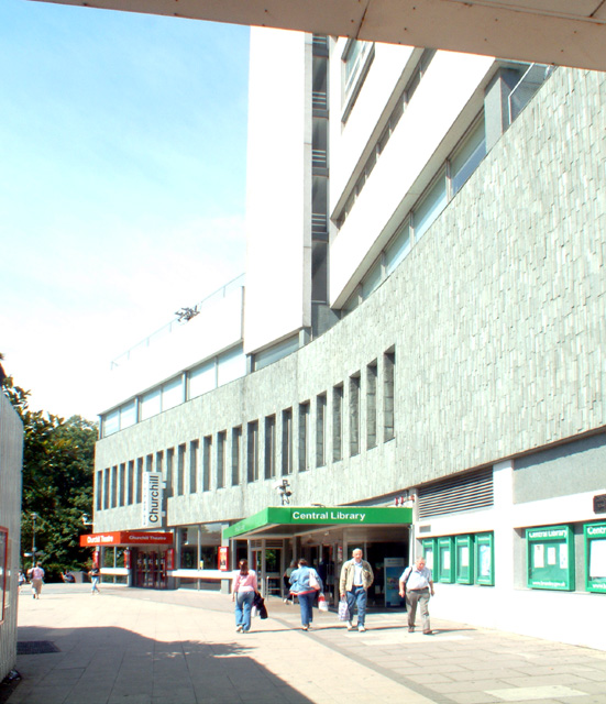 Bromley Central Library and Churchill Theatre. Centrally located in the pedestrianised section of Bromley High Street, the library and the theatre share one building, which was opened in 1975.